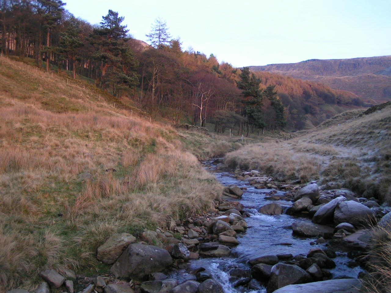 River Kinder by Peter Nook Wood, above Kinder Reservoir